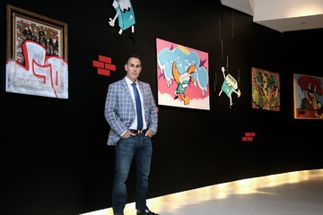 my recent pic Armand Peri